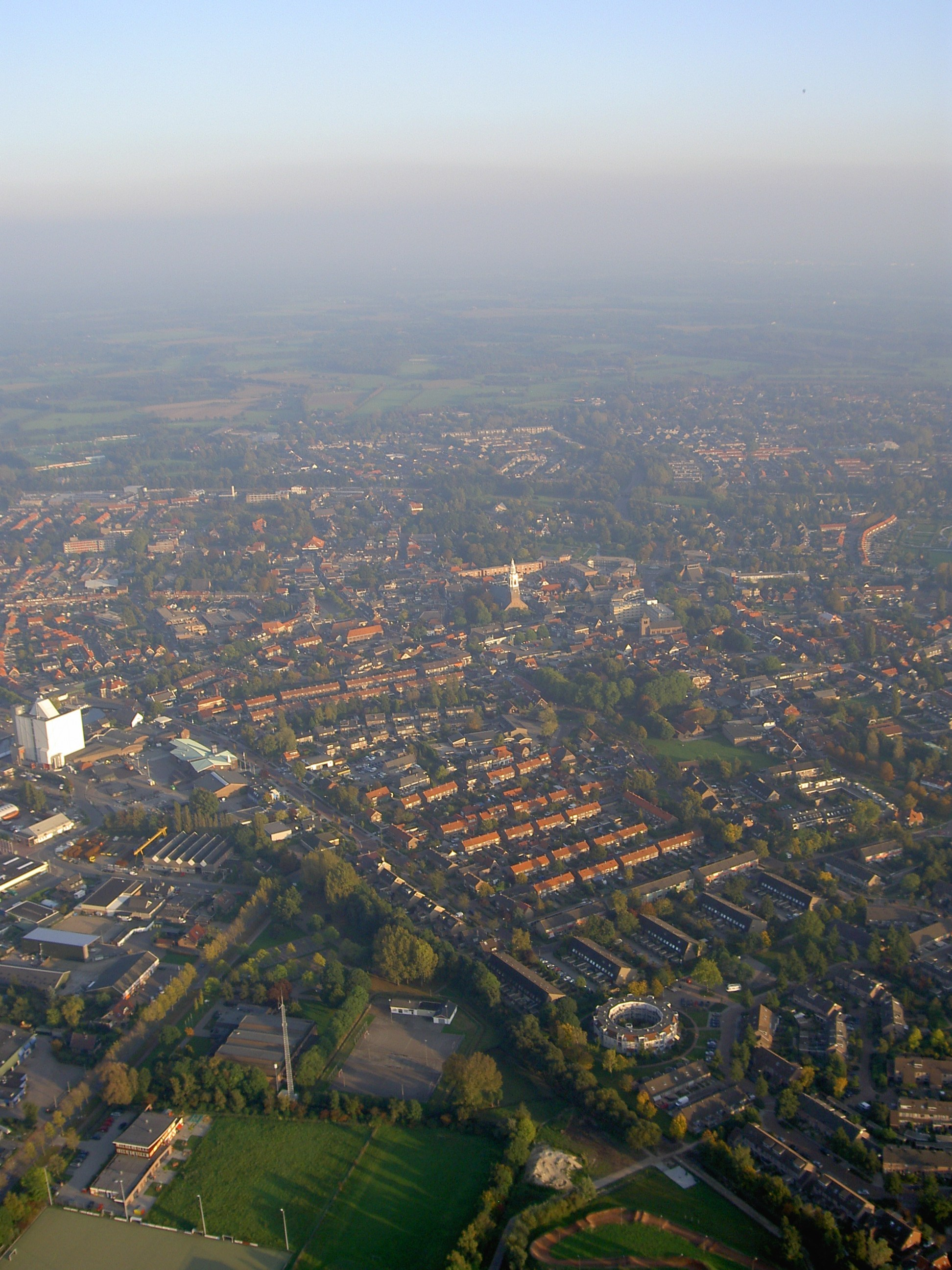 Aerial Photograph of Nijkerk, the Netherlands. An overview.